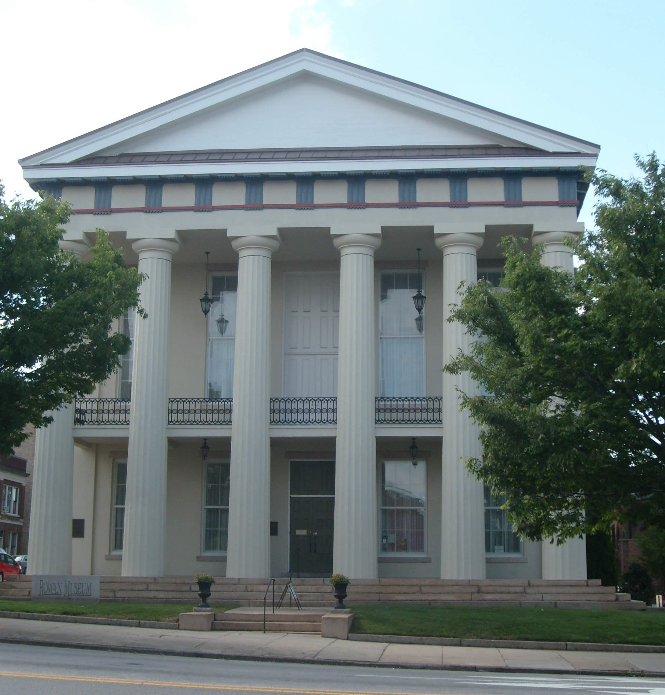 Community Building in Salisbury, North Carolina, USA. Now home to the Rowan Museum. On the National Register of Historic Places